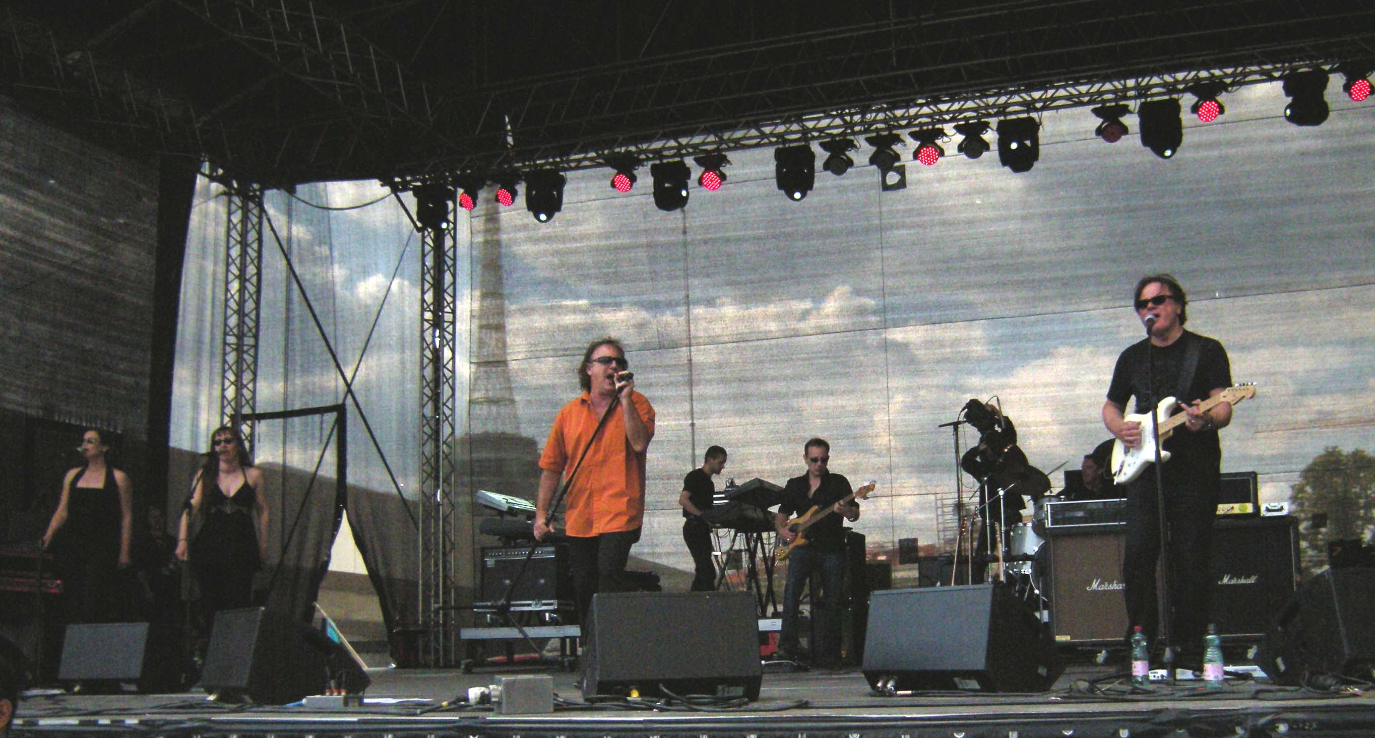 Austrian pop-rock group Opus (also Opus (Band)) performing on "Krieau" stage (Prater, Vienna). This event was due to opening a new section of Vienna's Subway line U2, which, by reason of EURO '08, from now on connects Ernst-Happel-Stadion with the center of the city.